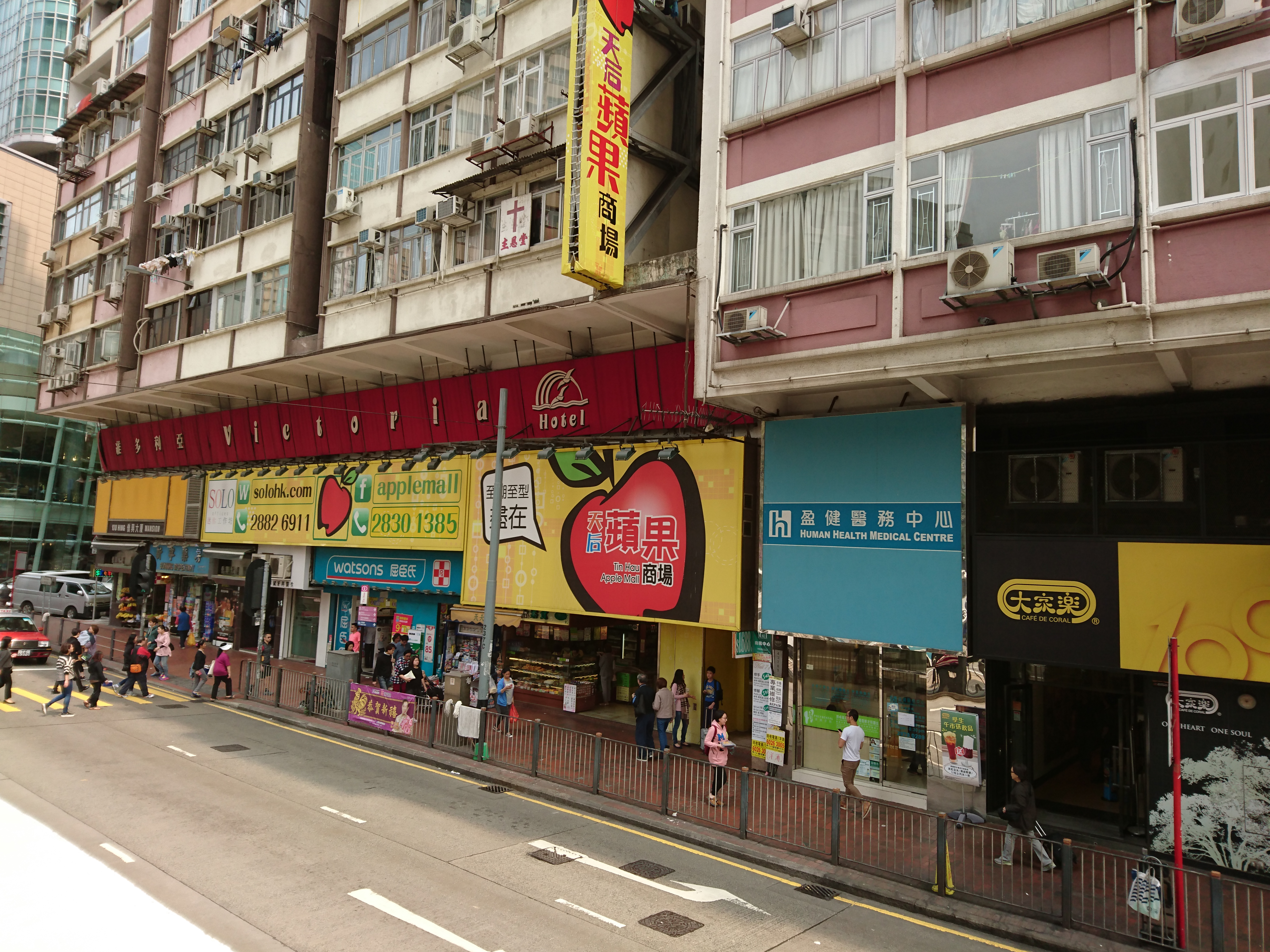 Tin Hau Apple Mall